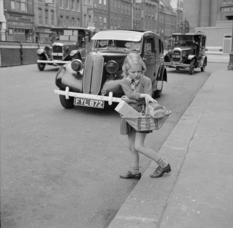 Safety First- Road Safety For Children, England, 1942 A young girl steps into the road as she struggles with her full shopping basket. In her attempt to stop the loaf of bread from falling out of the basket, she hasn't noticed the cars approaching behind her.